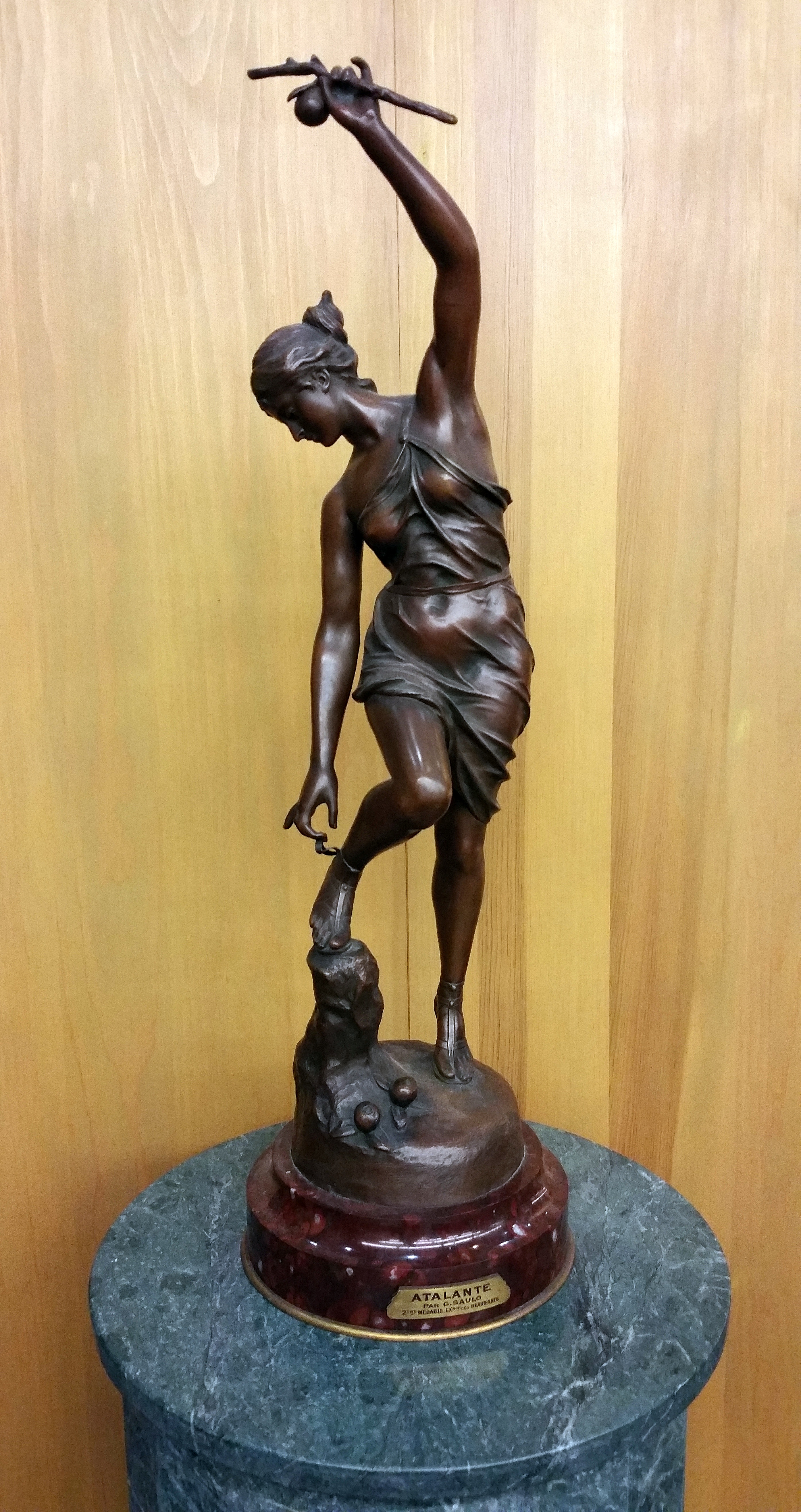 Atalante by Georges Saulo, french sculptor, at McLenna Library, McGill University in Montreal, Quevec, Canada.